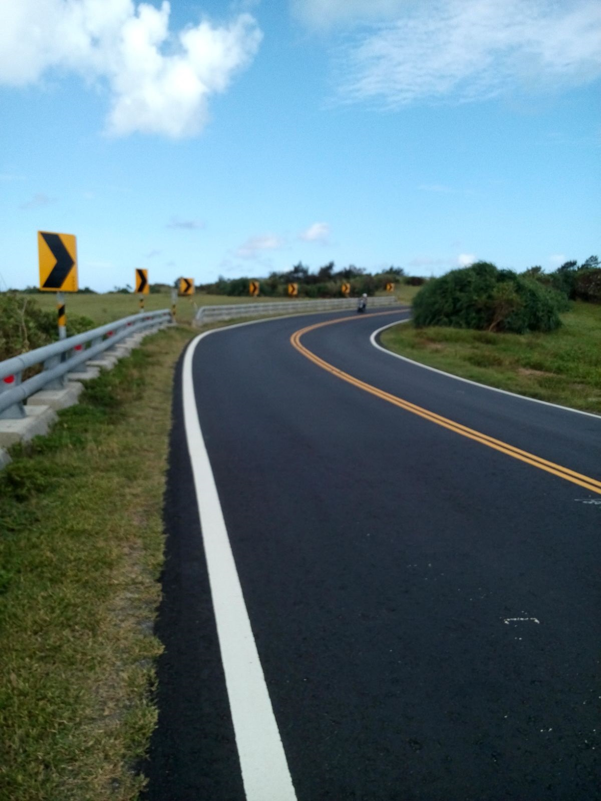 A Road in Ping Tung, Taiwan.